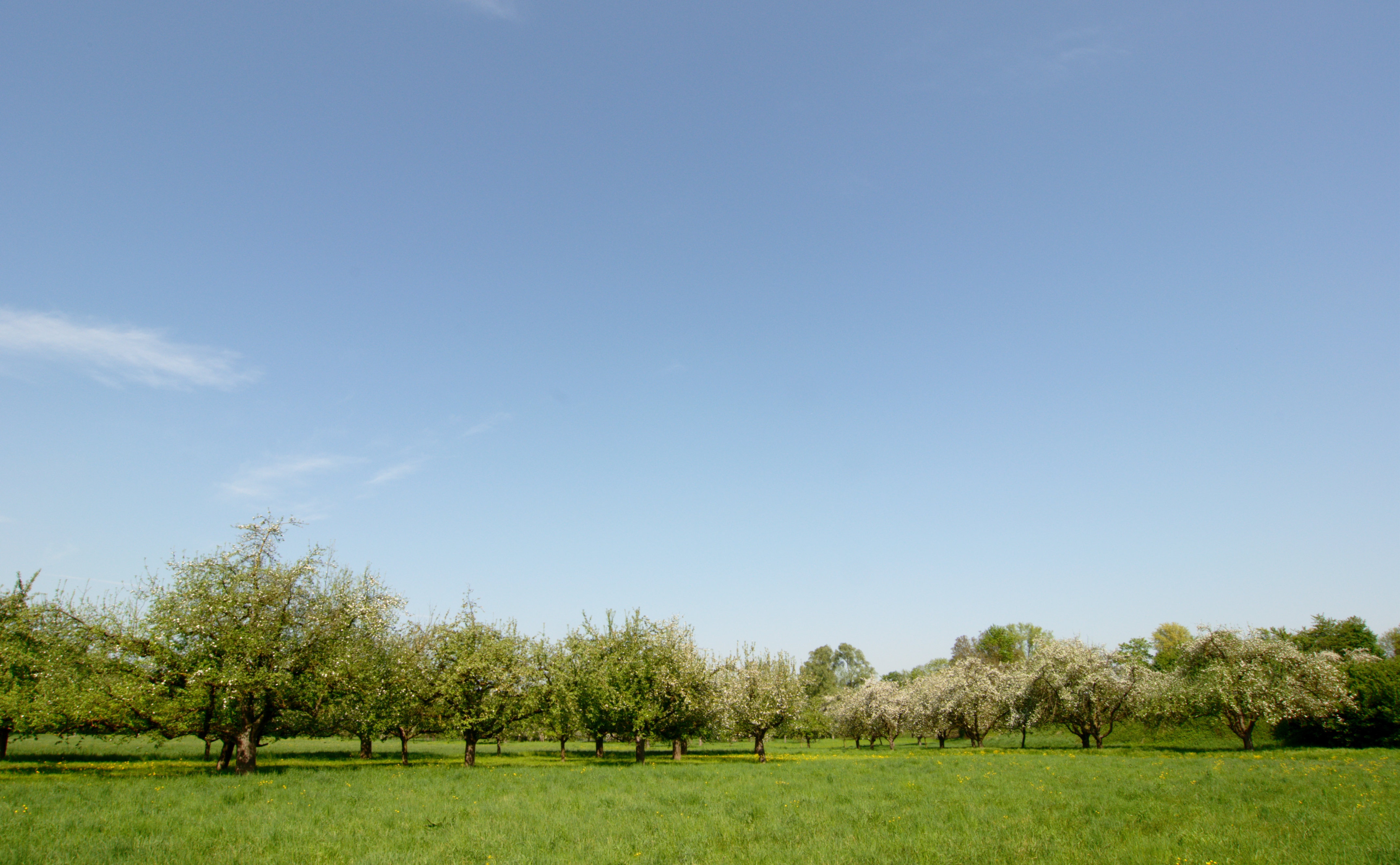 Orchard on the island between the Old Neckar and the Neckar canal, near Pleidelsheim